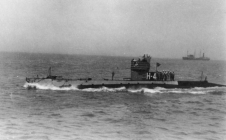 NH-53607 USS H-4 underway, circa 1922